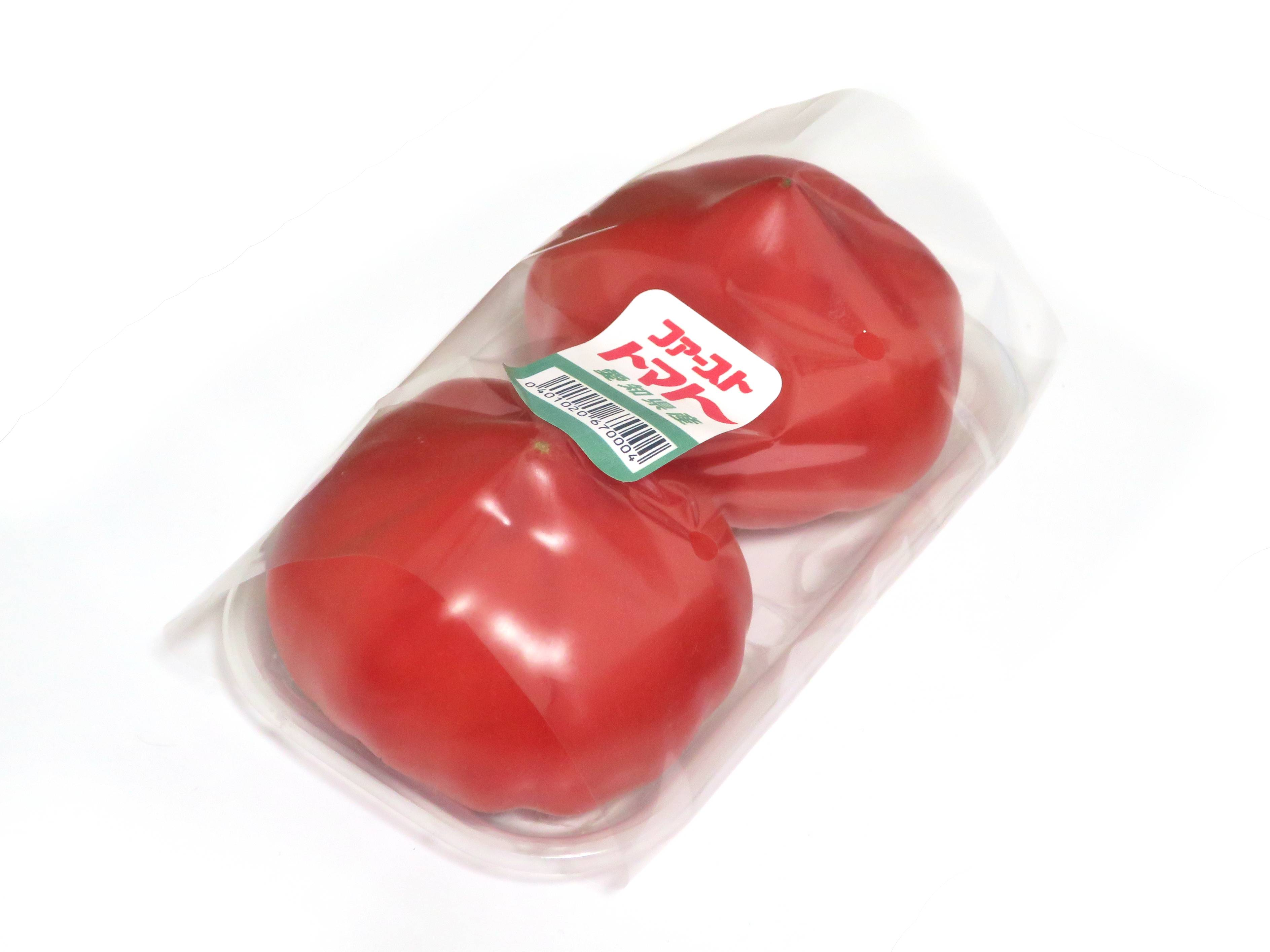 Aichi First Tomato.